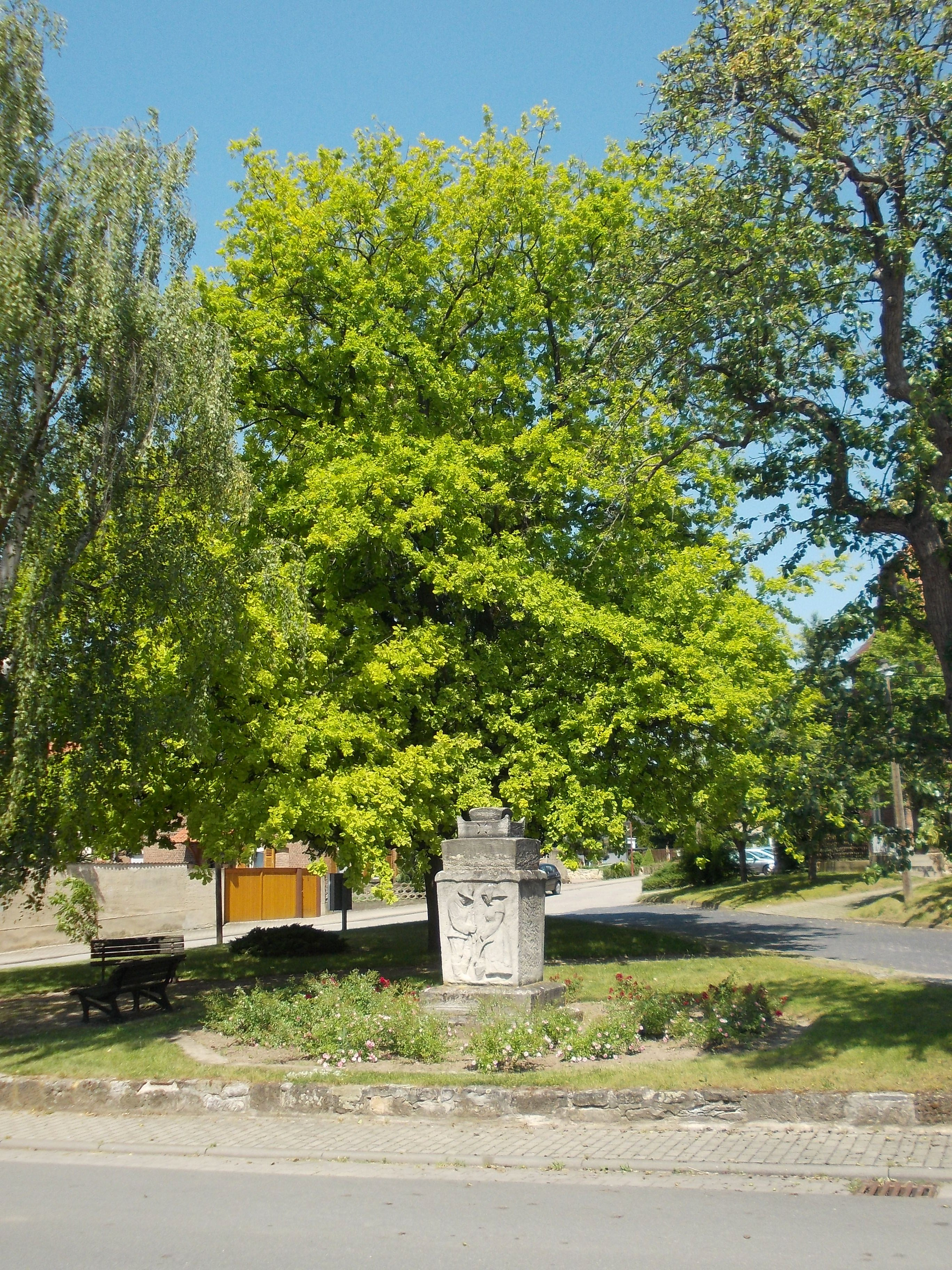 Village square in Lobitzsch (Weissenfels, district: Burgenlandkreis, Saxony-Anhalt) with war memorial